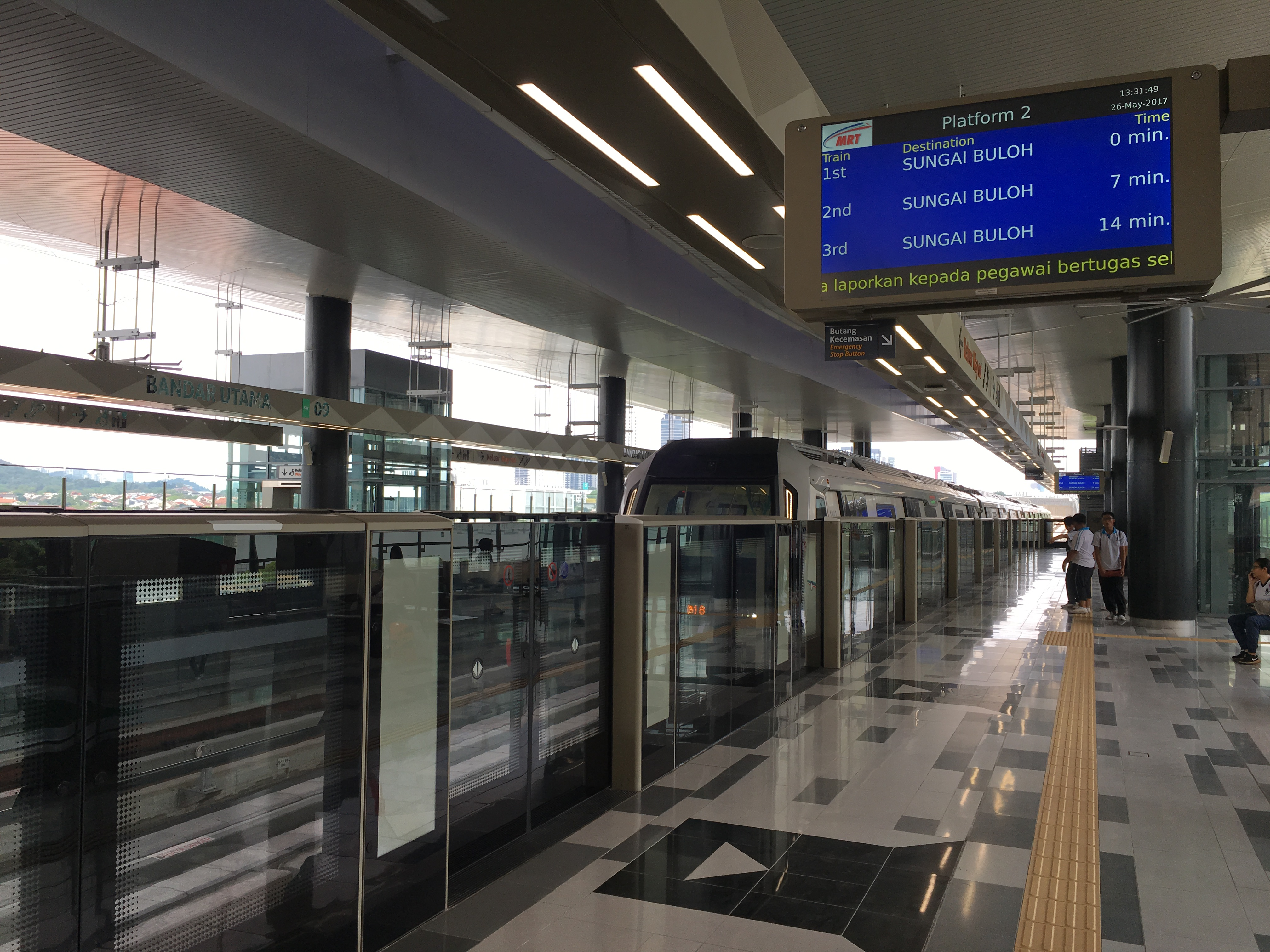 Platform 2 of the Bandar Utama MRT Station.